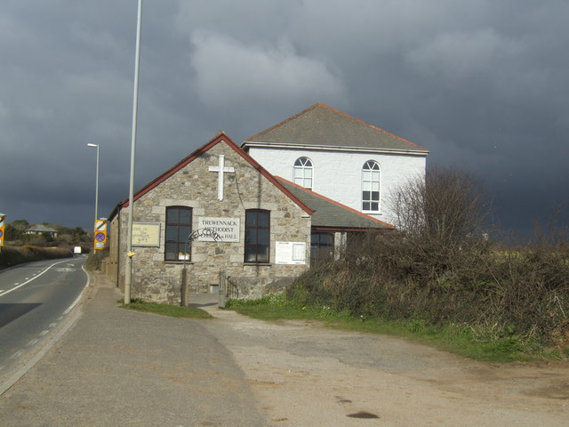 Trewennack Methodist Church and Hall Hard by the A394 Falmouth road.